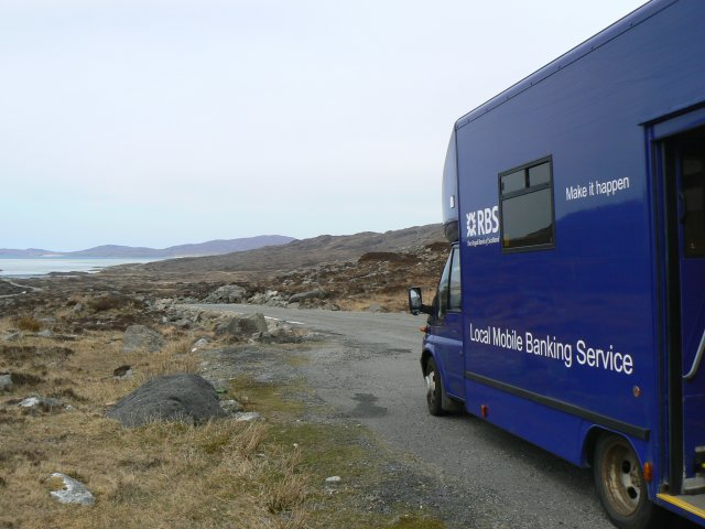 Lonely spot for a banking service The RBS (Royal Bank of Scotland) mobile service van parked in an isolated lay-by while the mobile banking staff indulge in a spot of lunch.